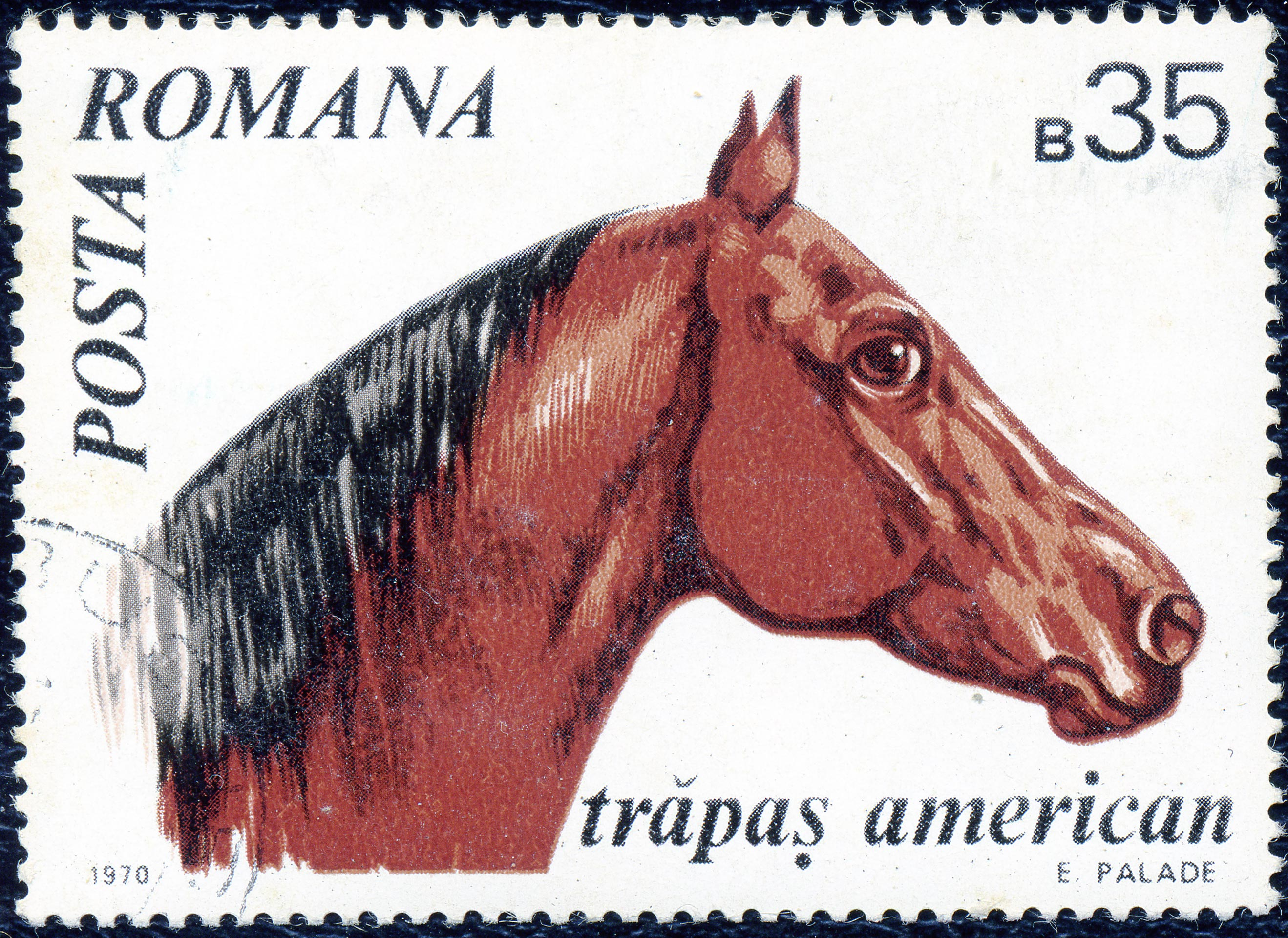 Stamp of Romania. 1970.Trapas american